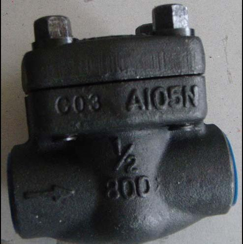 Forged socket weld carbon steel piston check valve. Valves and are generally made of plastic or steel, the latter being the most widely used in chemical and petrochemical applications. Steel grades range from the most common type, namely carbon steel, with standard stainless steel being the second most common. Stainless steel alloys, which include nickel or copper are used in applications that require higher corrosion or heat resistance. In such cases, the most commonly used valve configurations -- ball valves, gate valves, check valves, globe valves and butterfly valves -- are often forged or cast as duplex valves, super duplex valves, alloy 20 valves, monel valves, inconel valves, incoloy valves and 254 SMO valves (6Mo valves). Titanium valves are also used in some highly corrosive applications. Titanium is not a stainless steel alloy.